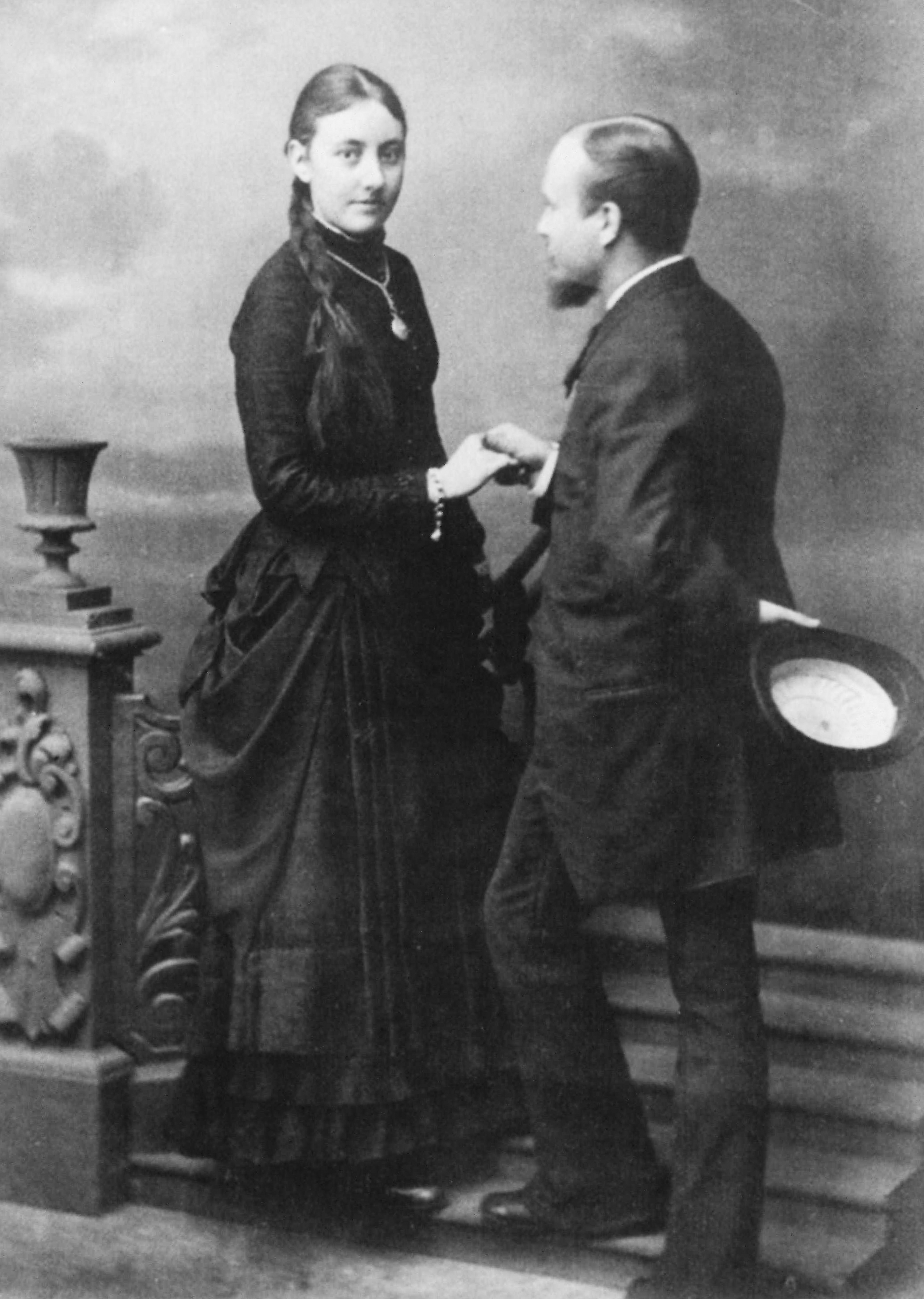 Bilden av Victor Westerholm med festmö torde vara från Kjell Eksröms bok om Victor Westerholm. I boken står bildtexten att Hilma Alander träffade Victor Westerholm på en danskurs i Åbo. De gifte sig 1885 och att detta fotografi antagligen togs i samband med förlovningen.